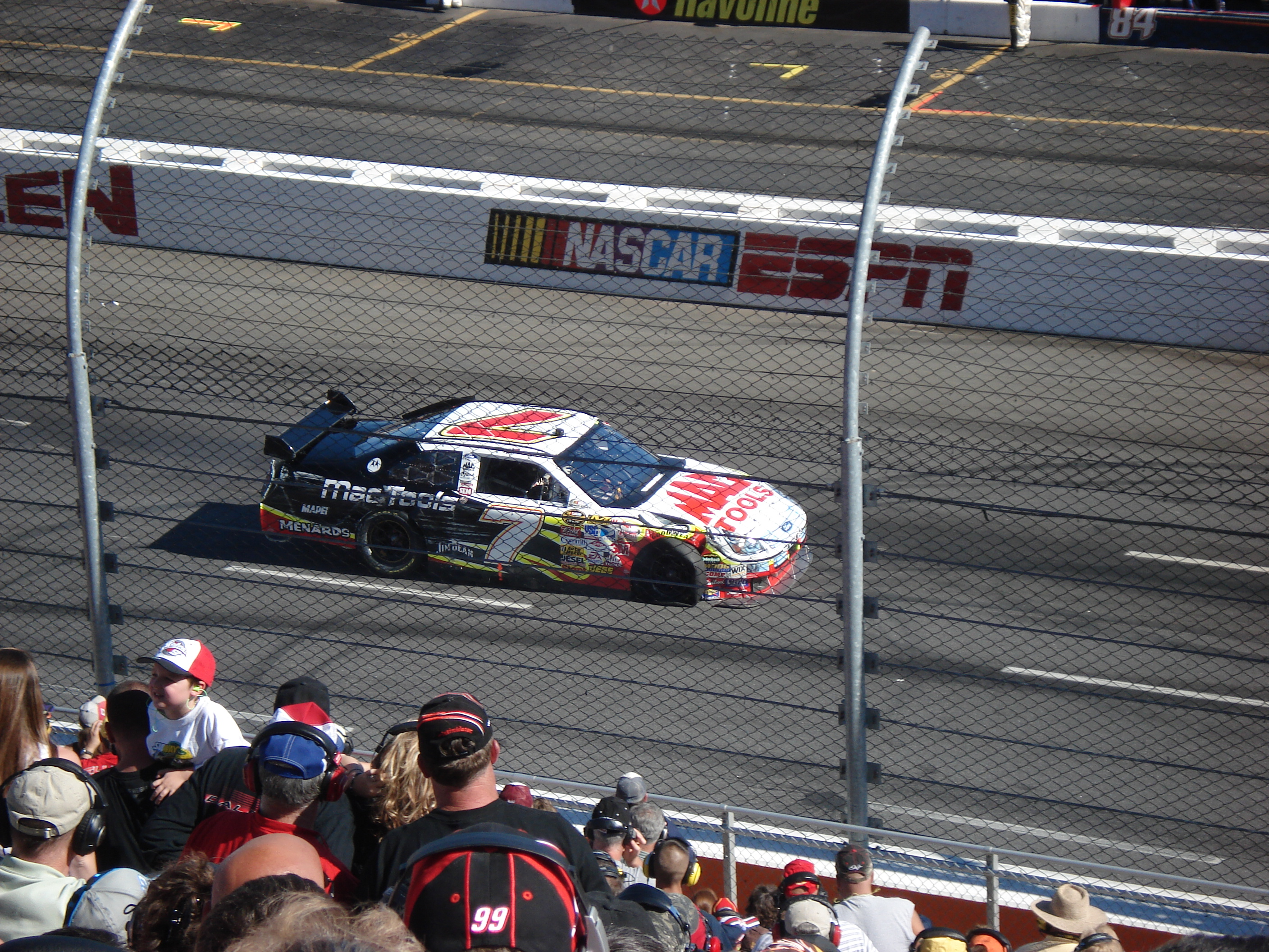 Robby Gordon racing at Martinsville Speedway in 2007.DSC03503